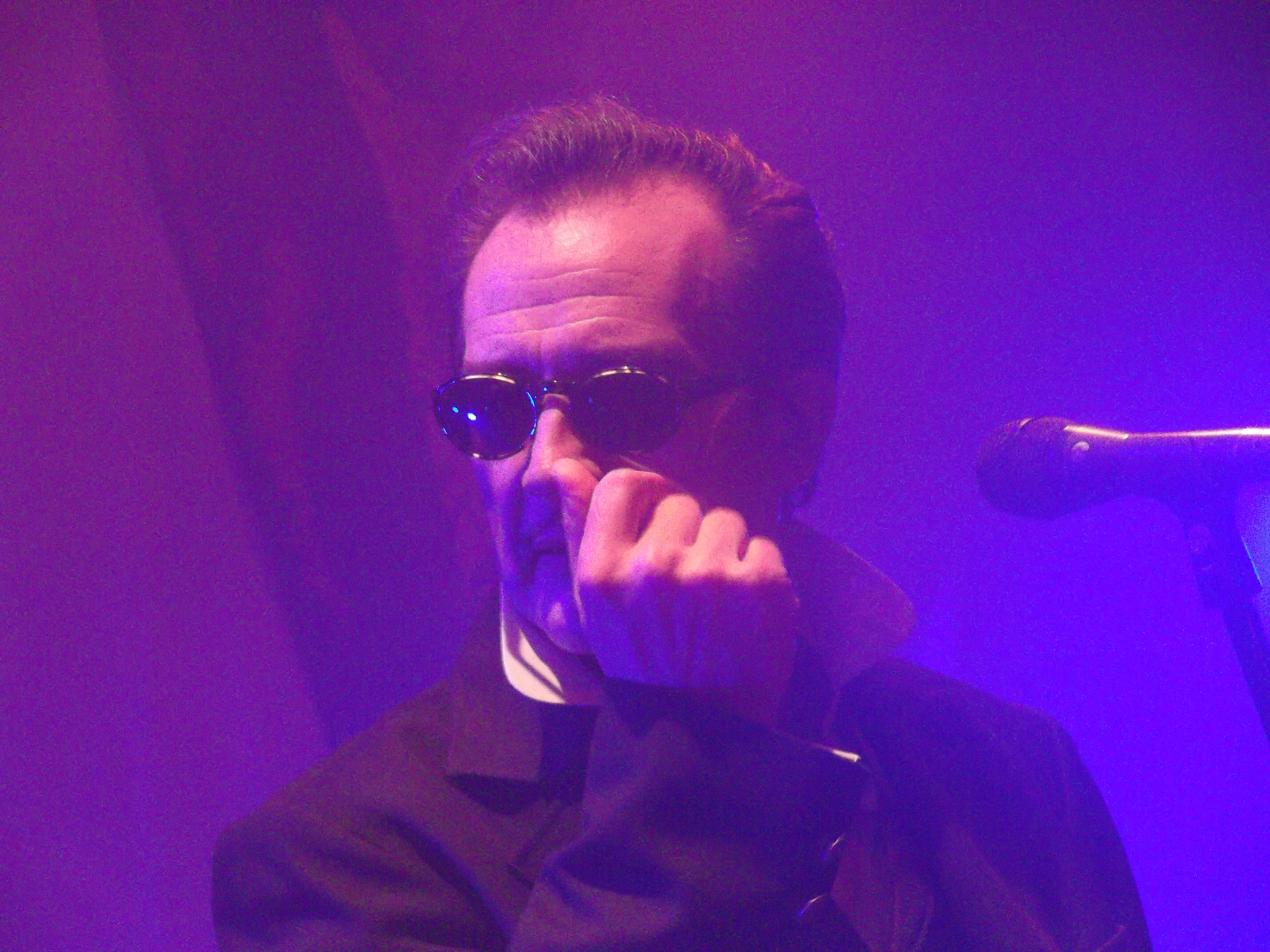 David Vanian of The Damned (band) in 2013